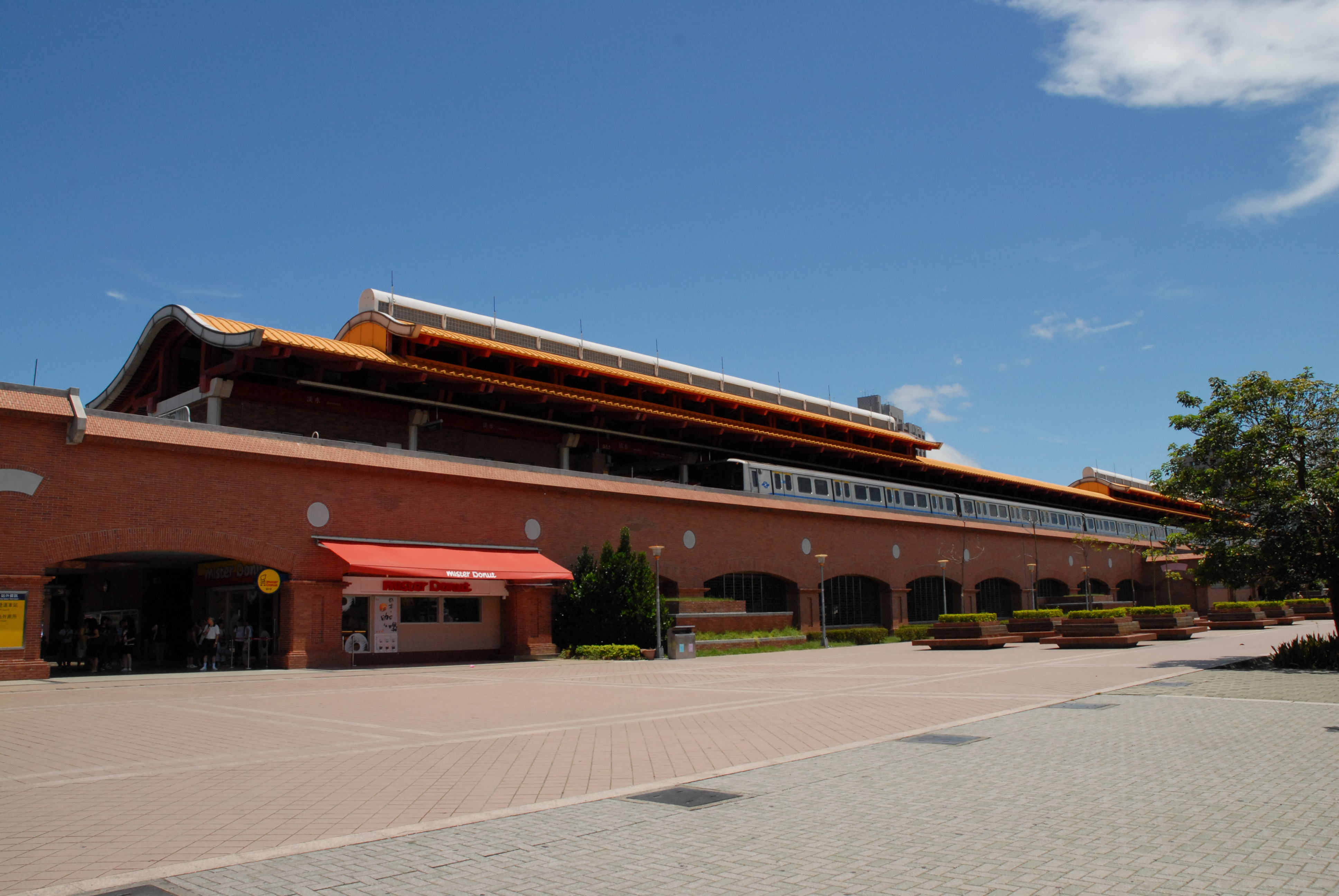 Taipei Metro station in Tamsui.